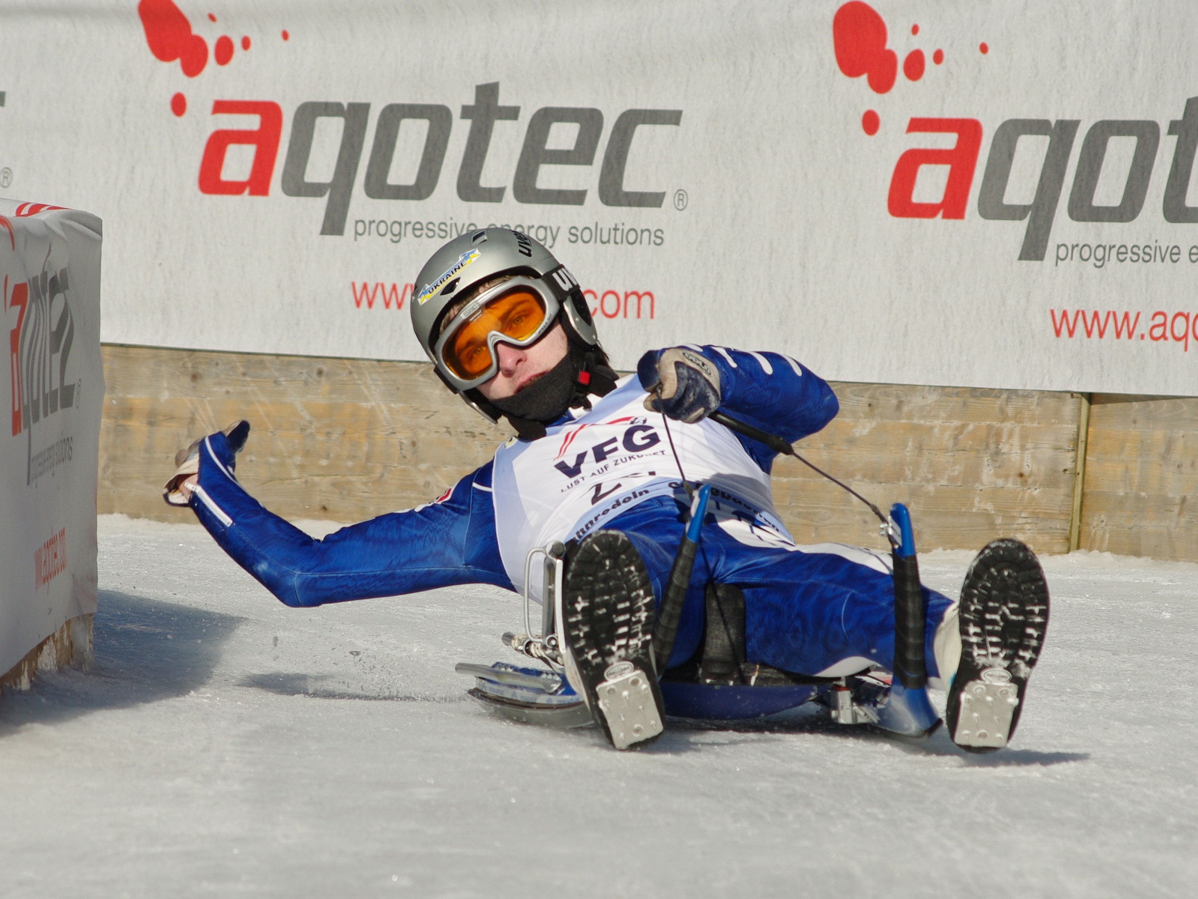 Ukrainian natural track luger Andrij Tolopko at the FIL European Luge Natural Track Championships 2010 in St. Sebastian, Austria.